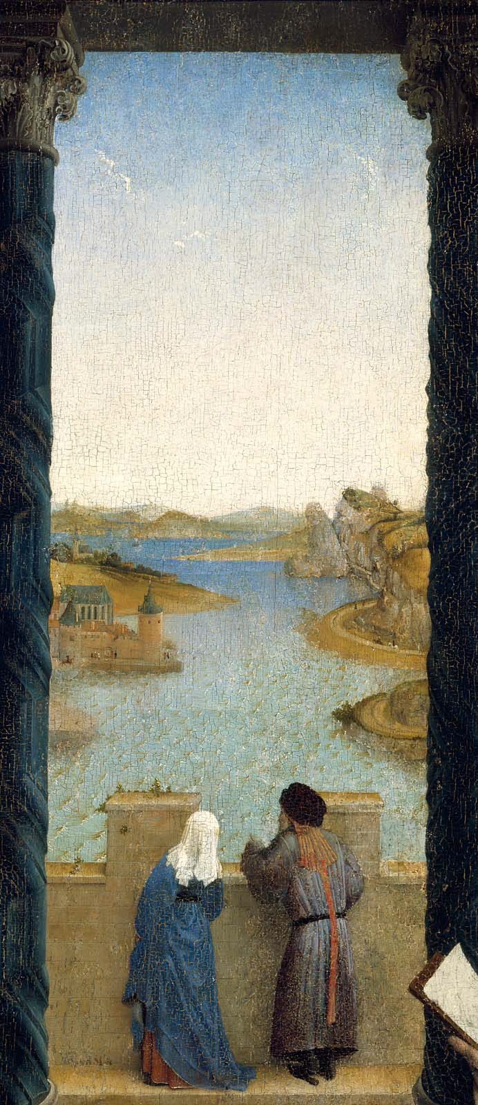 Detail, Saint Luke Drawing the Virgin